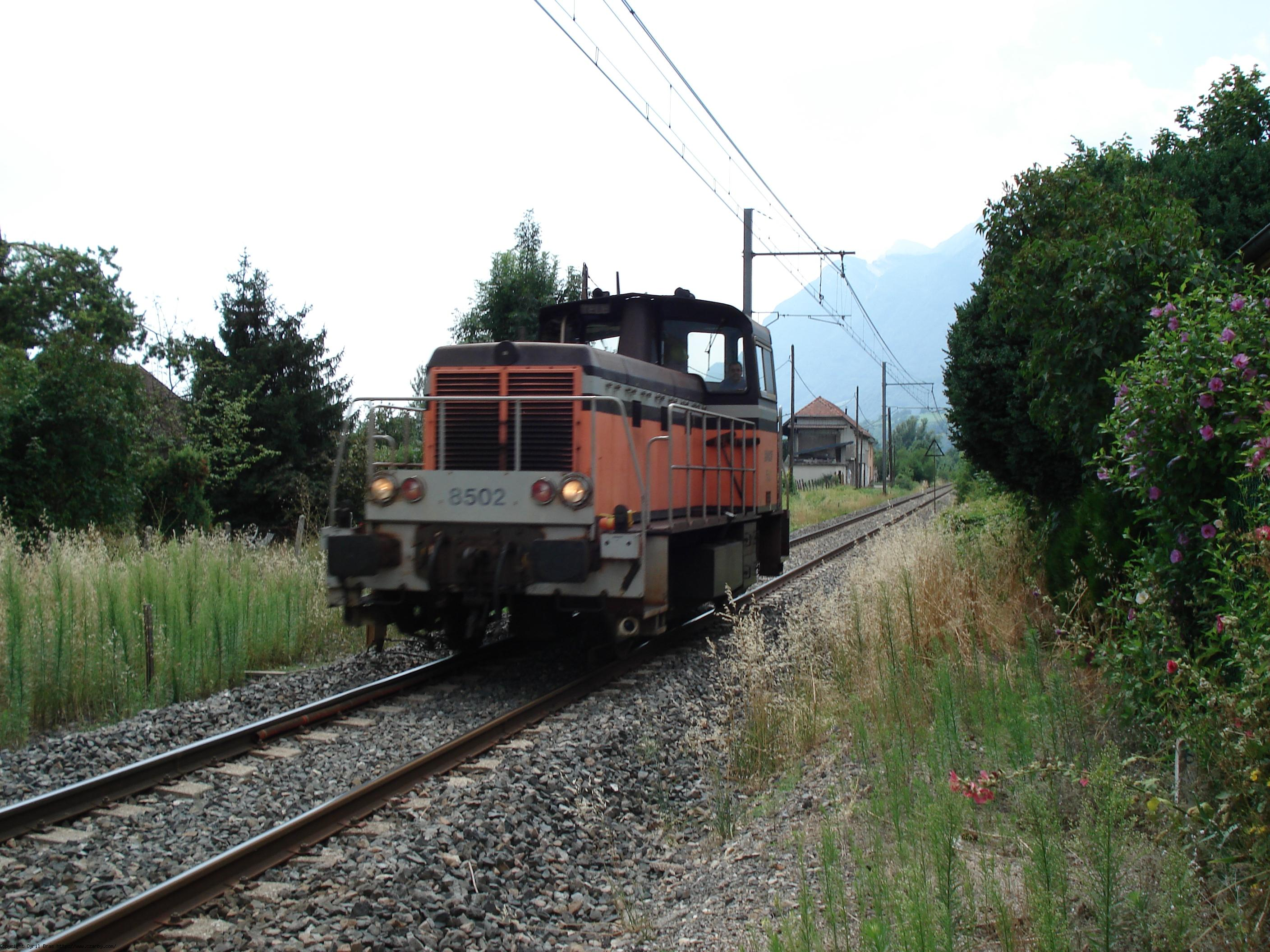 Shunter Y8502 approaching Albertville